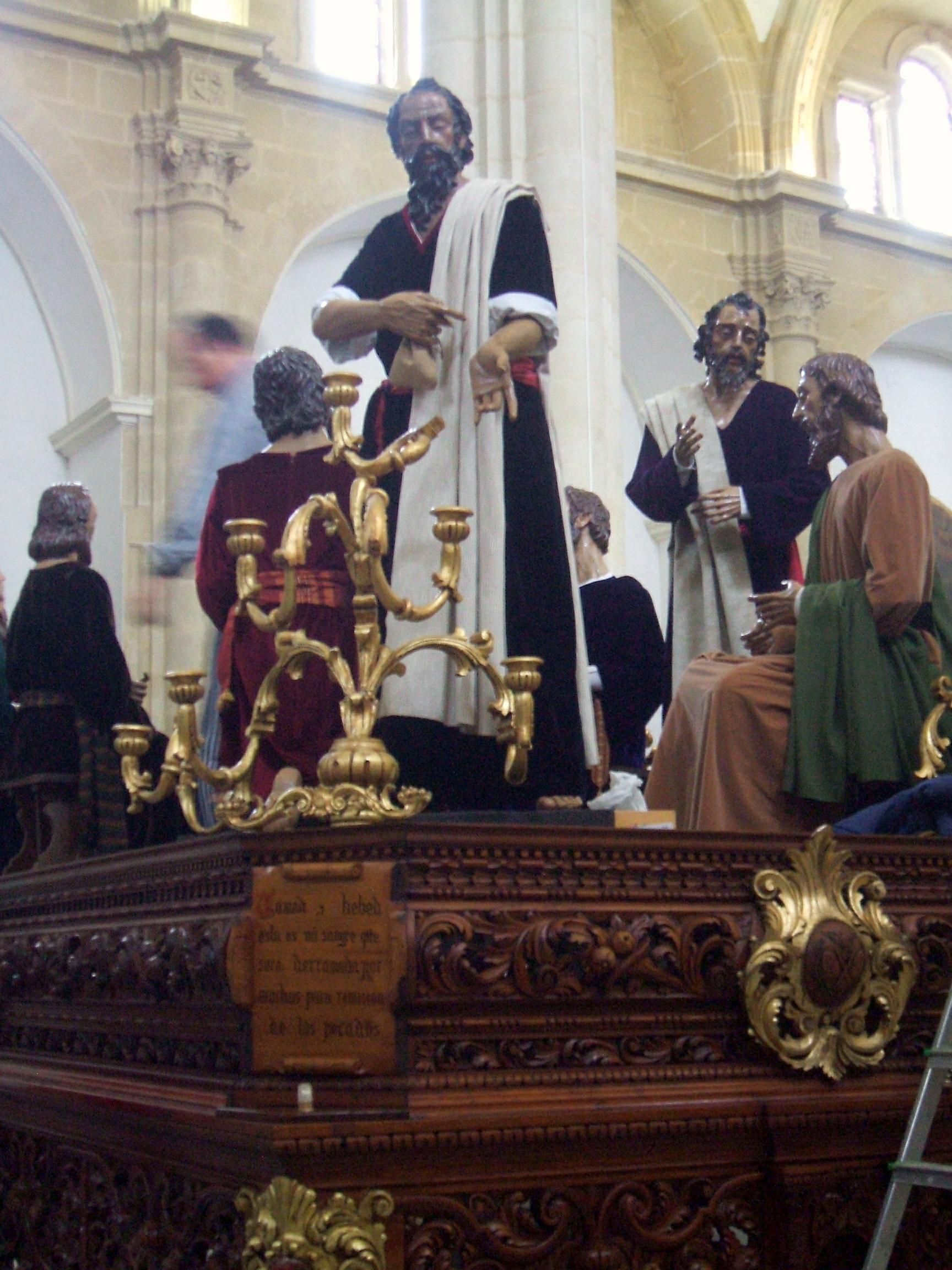 Paso de la Semana Santa de Baeza, en la Catedral. Baeza, provincia de Jaén, Andalucía, España